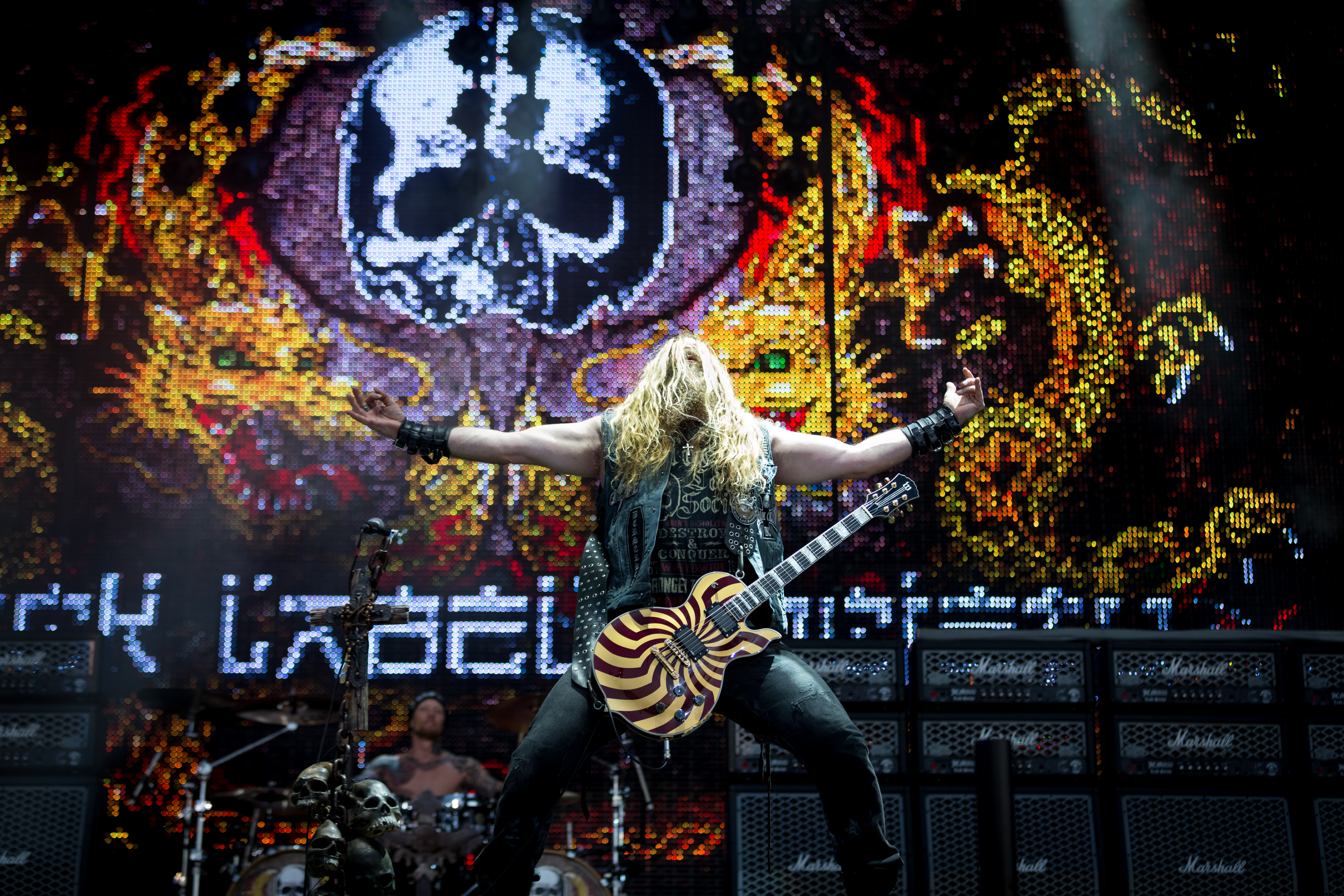 Black Label Society - Wacken Open Air 2015